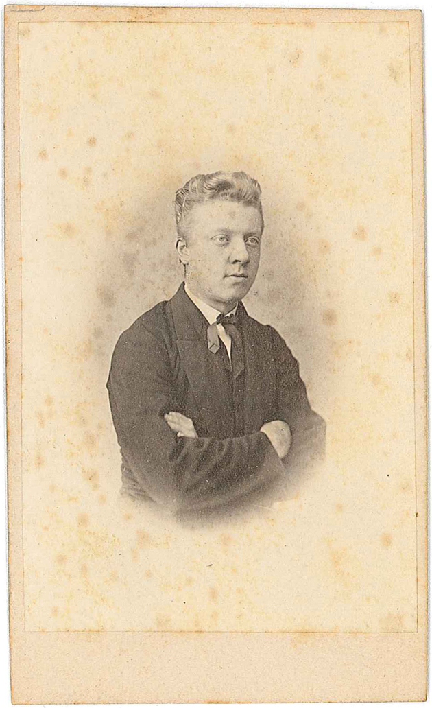 Adolf Nordenstedt (1851-1894), Swedish physician and well known personality in the academic life at Lund University during the 1870s.